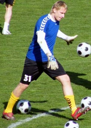 Zdeněk Zlámal during FC Slovan Liberec practice session.